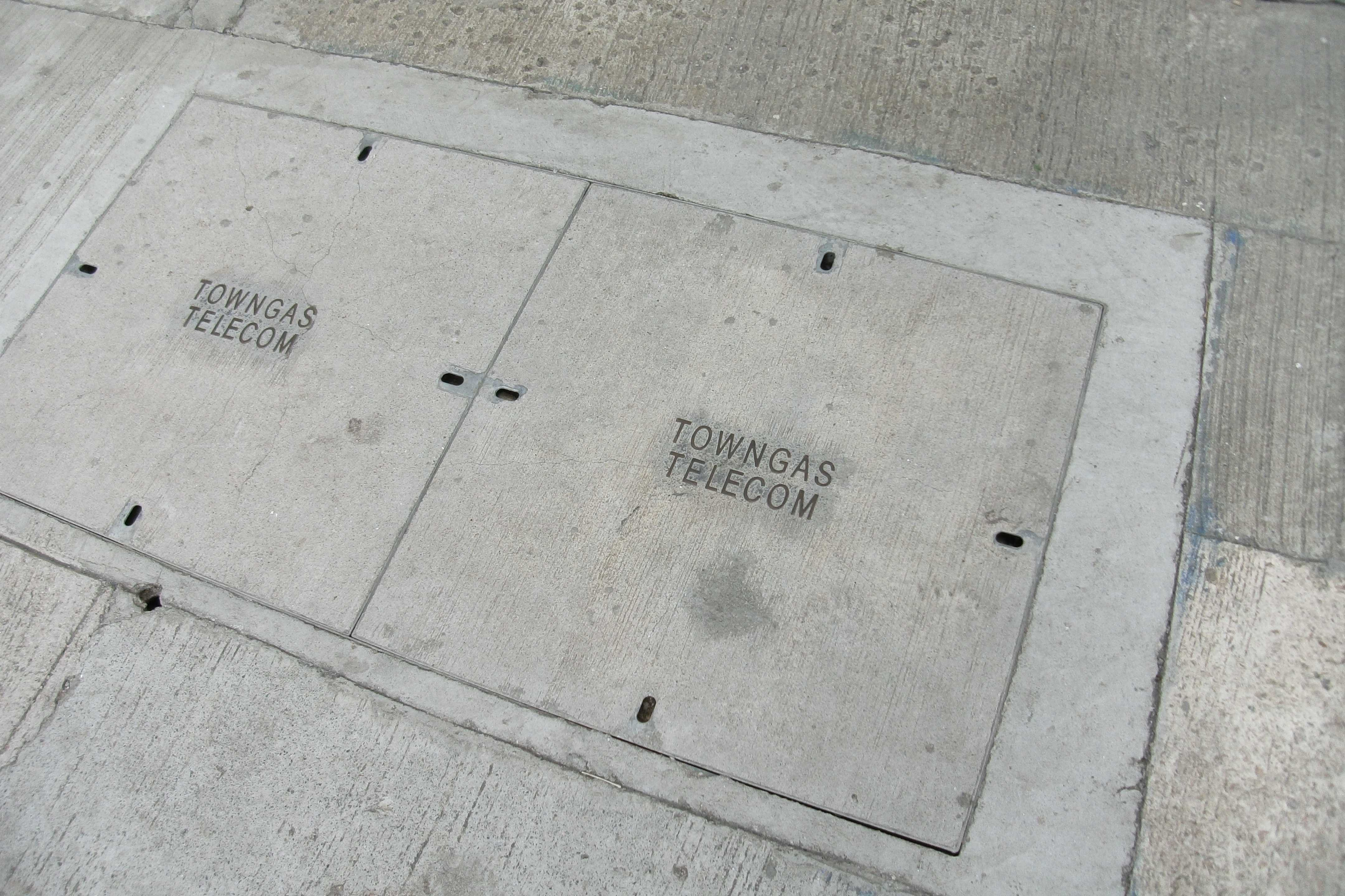 Towngas telecom manhole